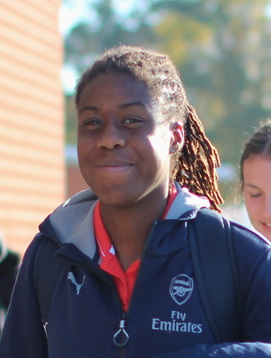 Vyan Sampson of Arsenal Ladies arrives before the game against Notts County.